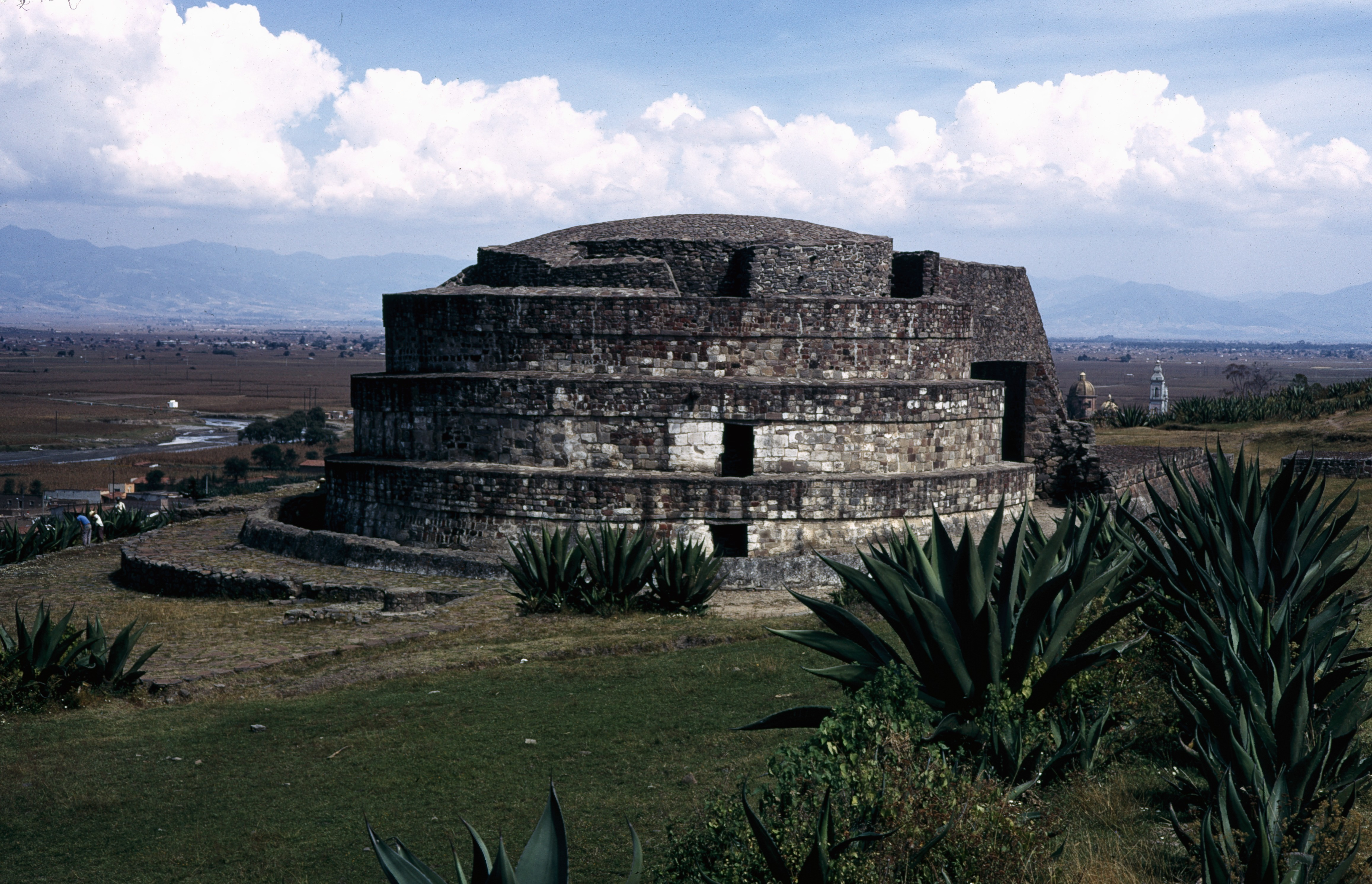 Calixtlahuaca, Estado de México, Mexico: building 3 (round pyramid)